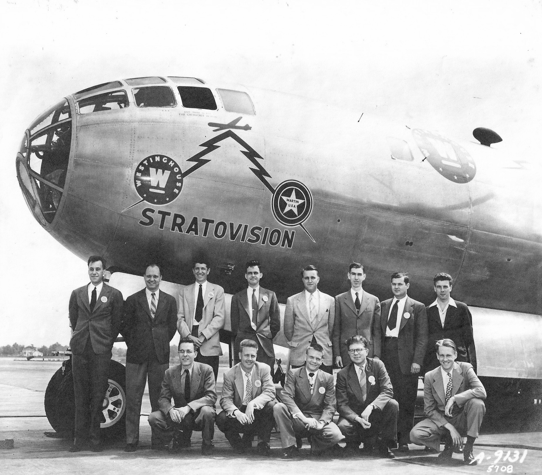 Westinghouse and Glenn L. Martin employees pose in front of B-29 Superfortress used in Stratovision tests in 1948 or 1949. In back row from left are Frank Gordon Mullins and C. E. Nobles. All others unidentified.